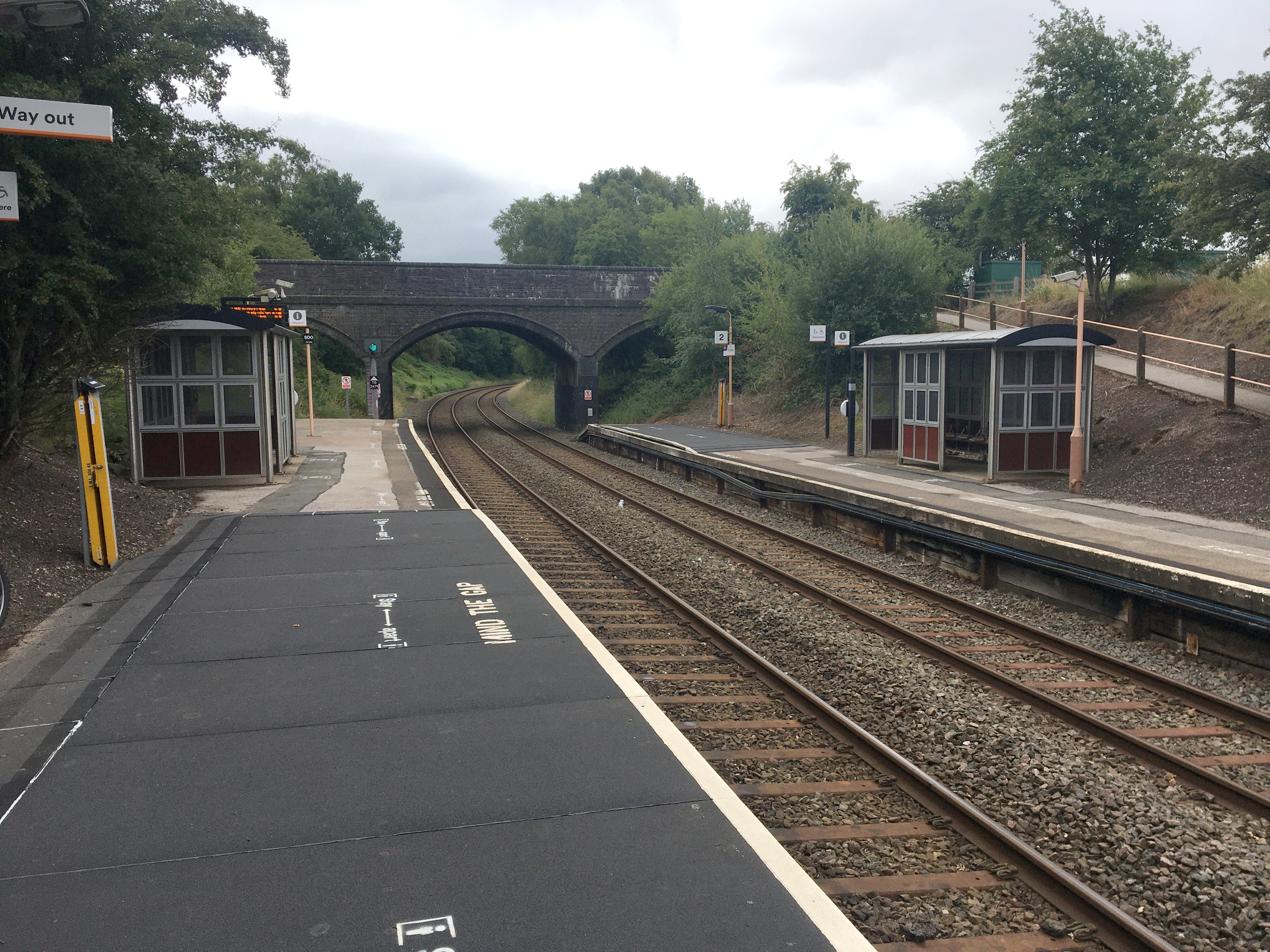 The Lakes railway station serves Earlswood Lakes in Earlswood, West Midlands, England.